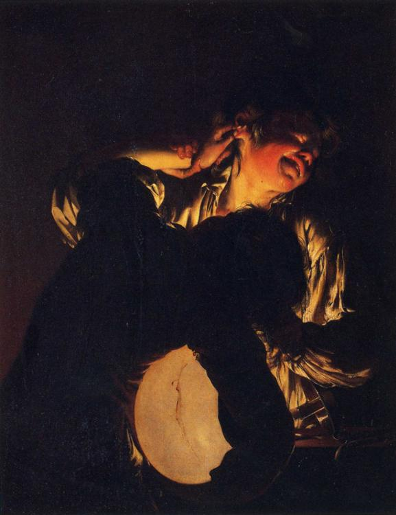 Joseph Wright of Derby. Two Boys Fighting over a Bladder. c.1767-70. Oil on canvas. 91.5 x 71.2 cm. Private collection.